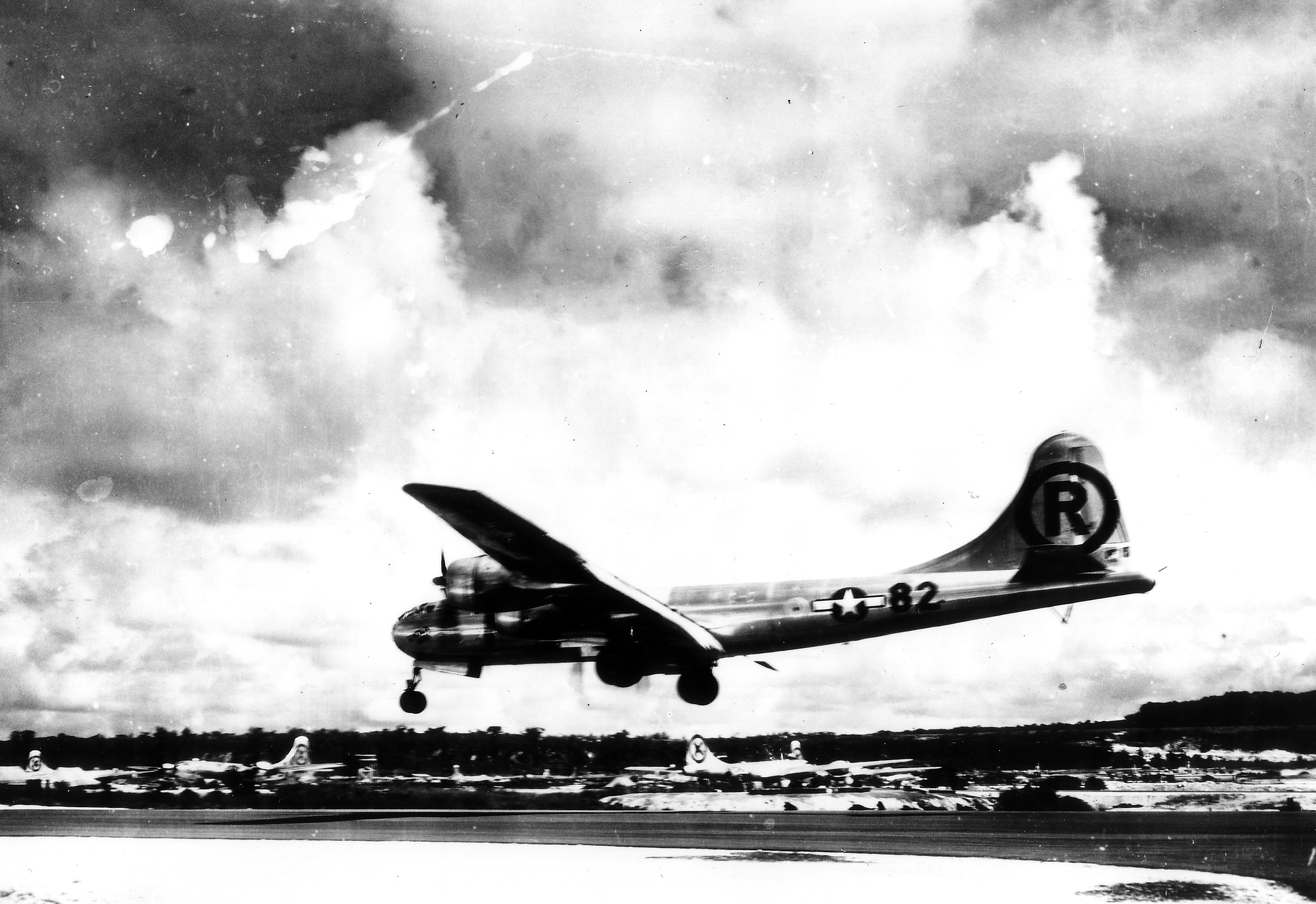 MARIANA ISLANDS -- Boeing B-29 Superfortress "Enola Gay" landing after the atomic bombing mission on Hiroshima, Japan